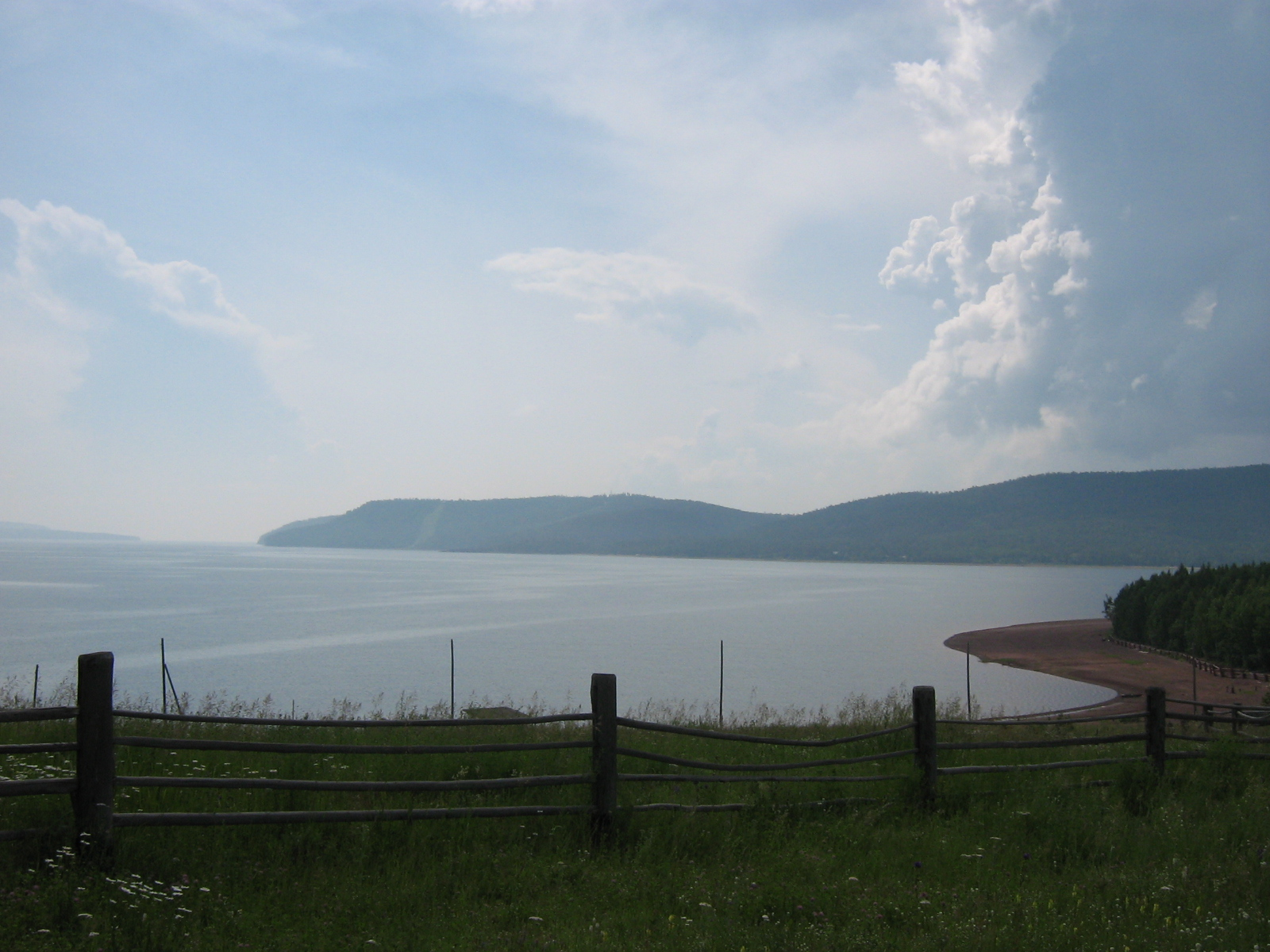 Bratsk Reservoir view, Bratsky District, 2007.